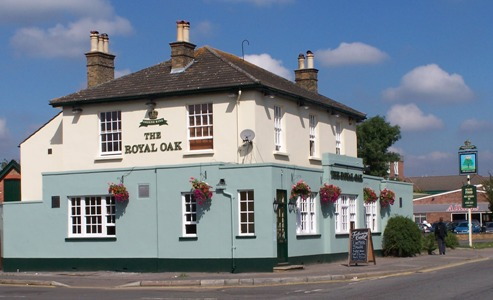 Picture of North Leatherhead Pub, The Royal Oak.